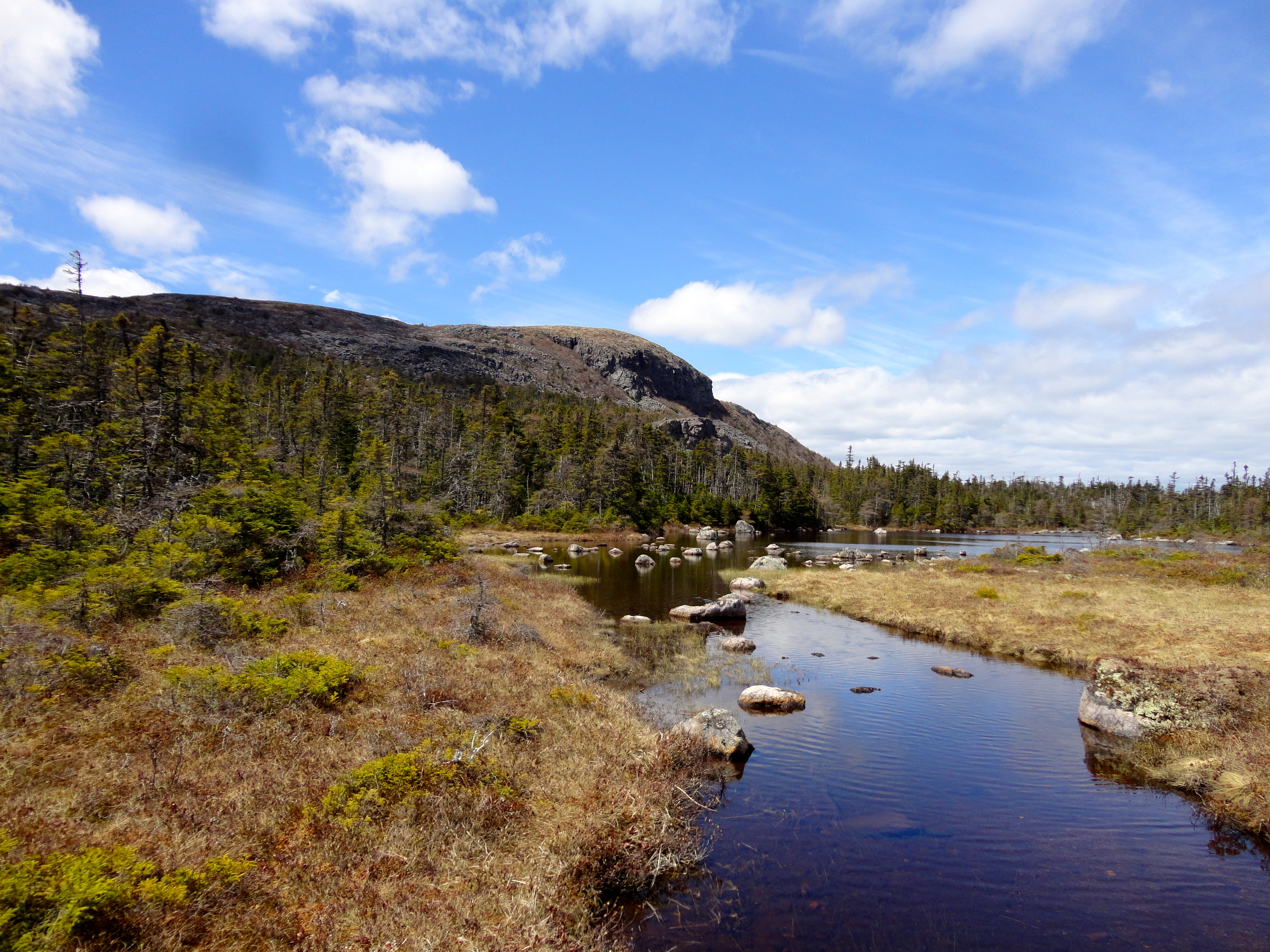 Photo of Butterpot Mountain, the highest peak on the Avalon Peninsula